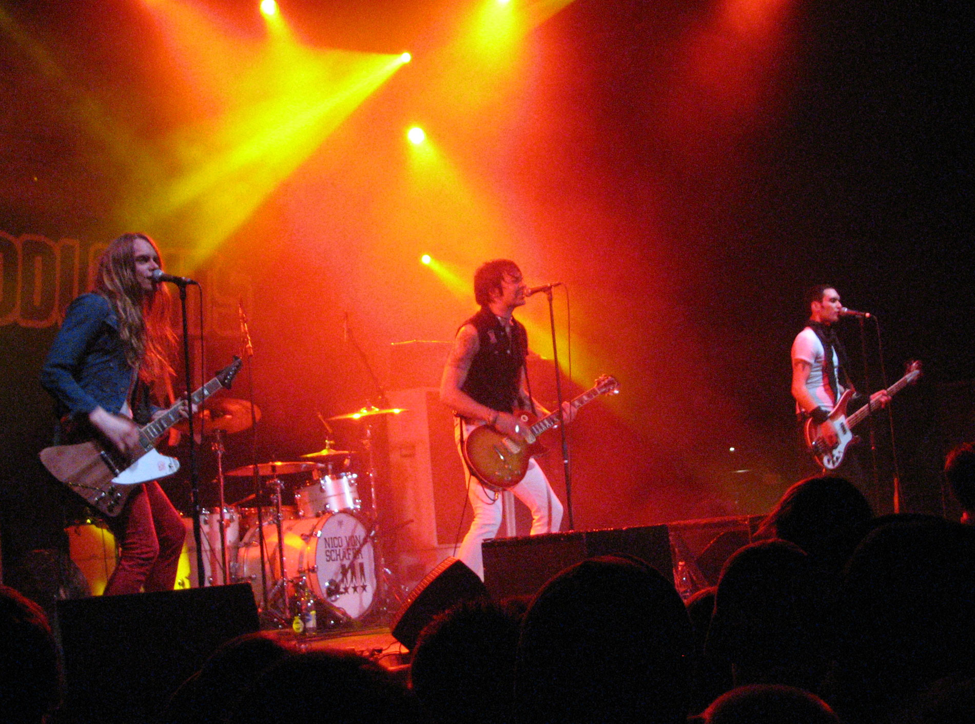 Bloodlights from Oslo, Norway, live at Conventum, Örebro, Sweden.